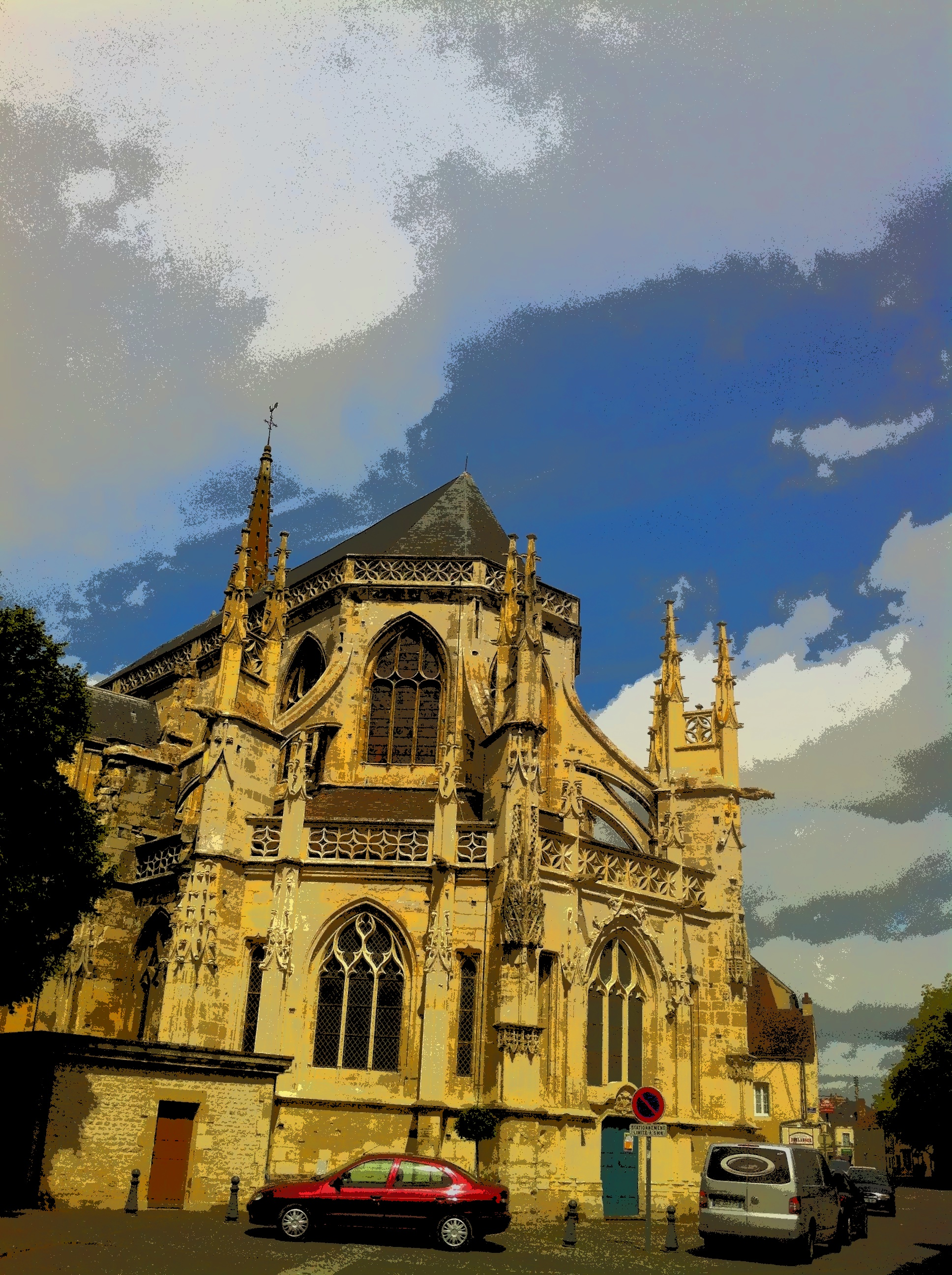 église Saint-Martin d'Argentan